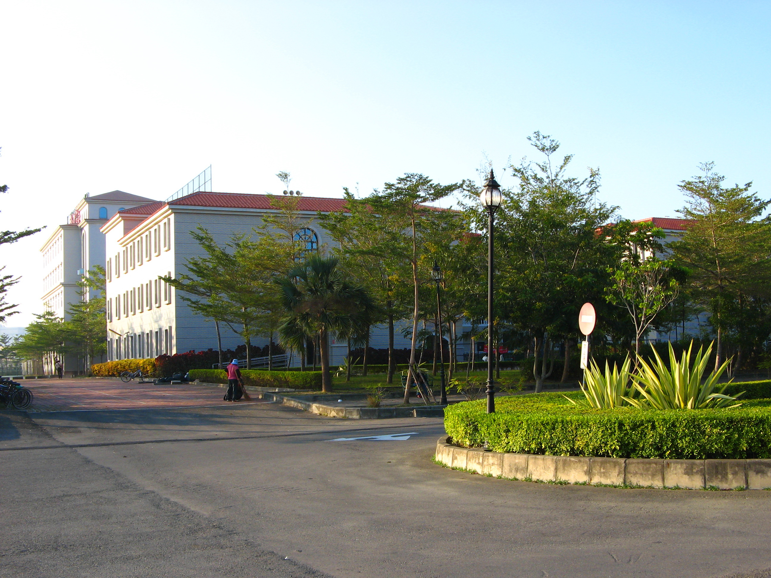 Toko University, Chiayi, Taiwan.